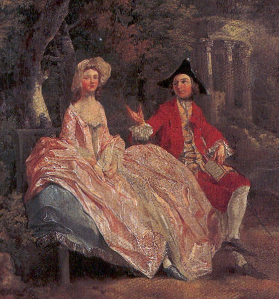 Conversation in a Park, detail